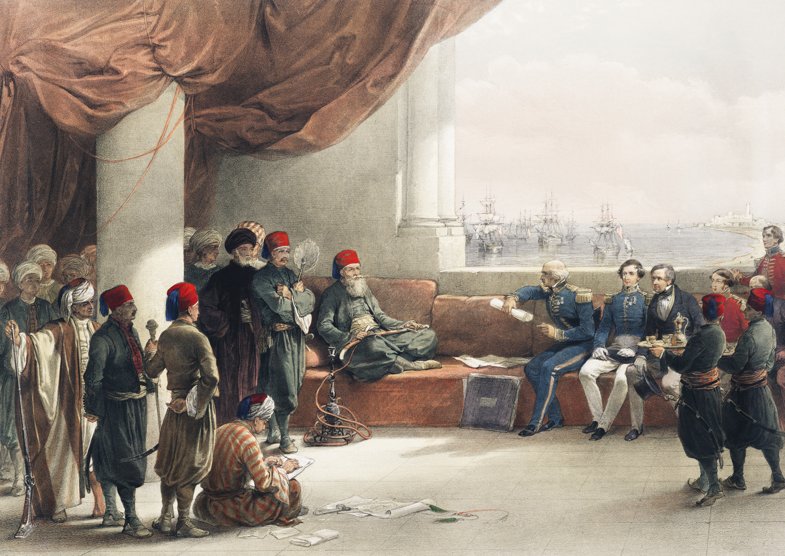 Interview with The Viceroy of Egypt at His palace at Alexandria illustration by David Roberts (1796-1864).